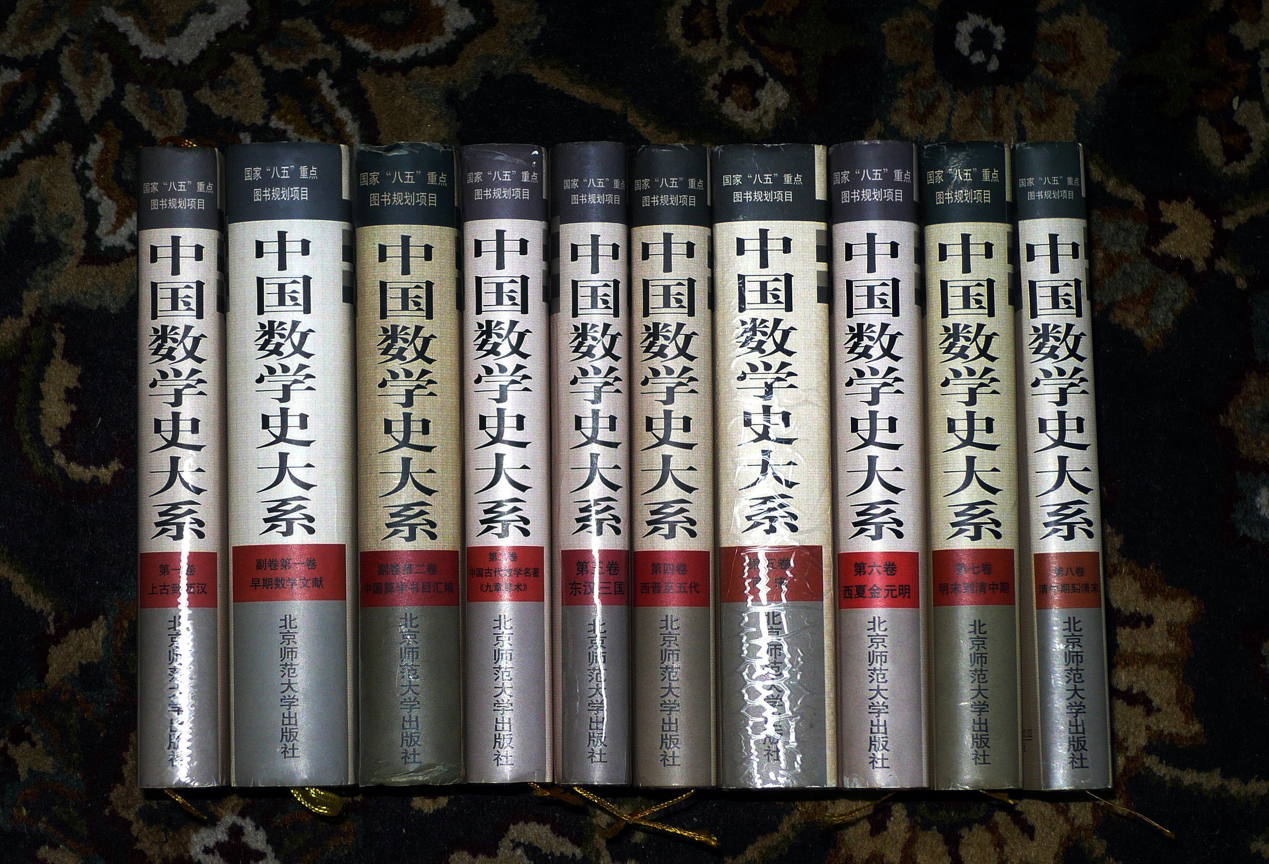 Grand Series of History of Chinese Mathematics